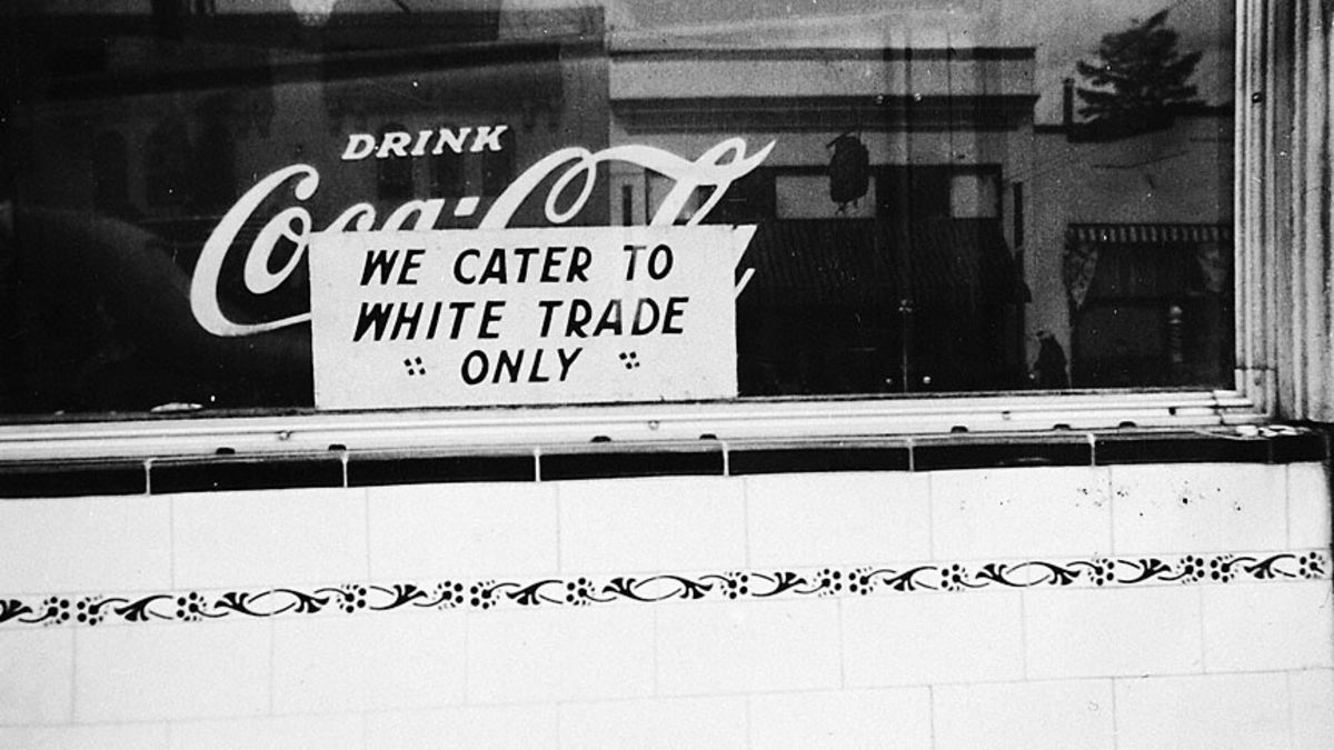 A sign from Oregon stating that they only carter to white customers